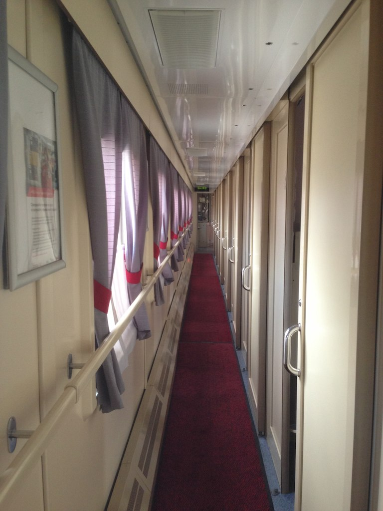 The car was kept in spotless condition by the hard working Provodnitsa.